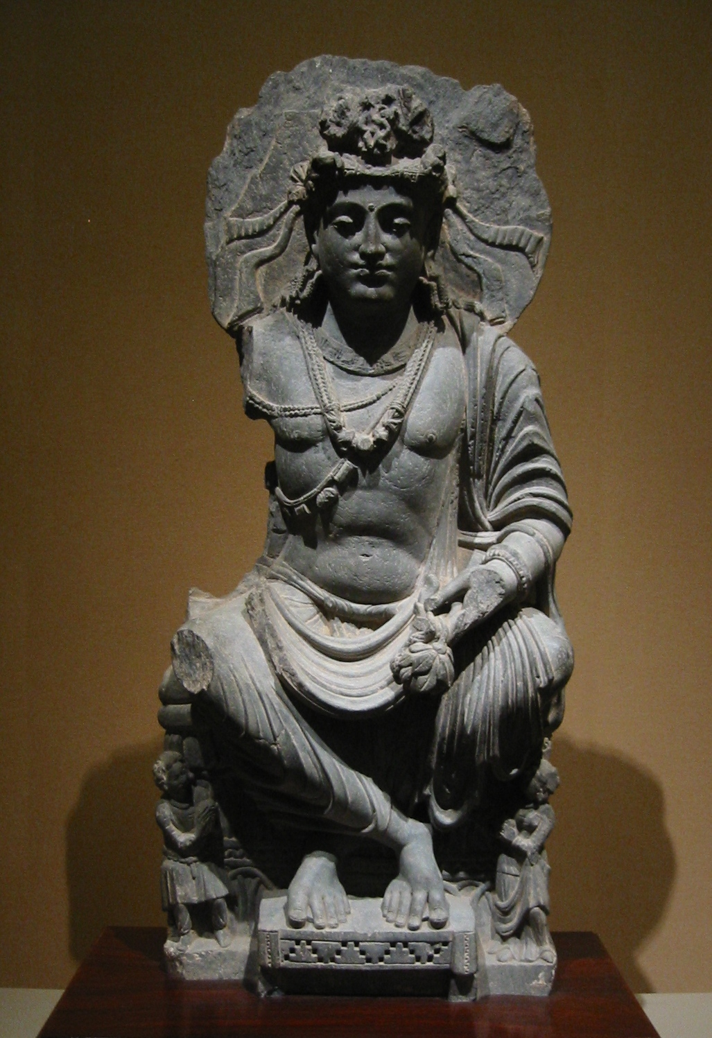 Seated Maitreya. 2nd century Gandhara. Tokyo National Museum. Personal photograph 2005. Devotee detail